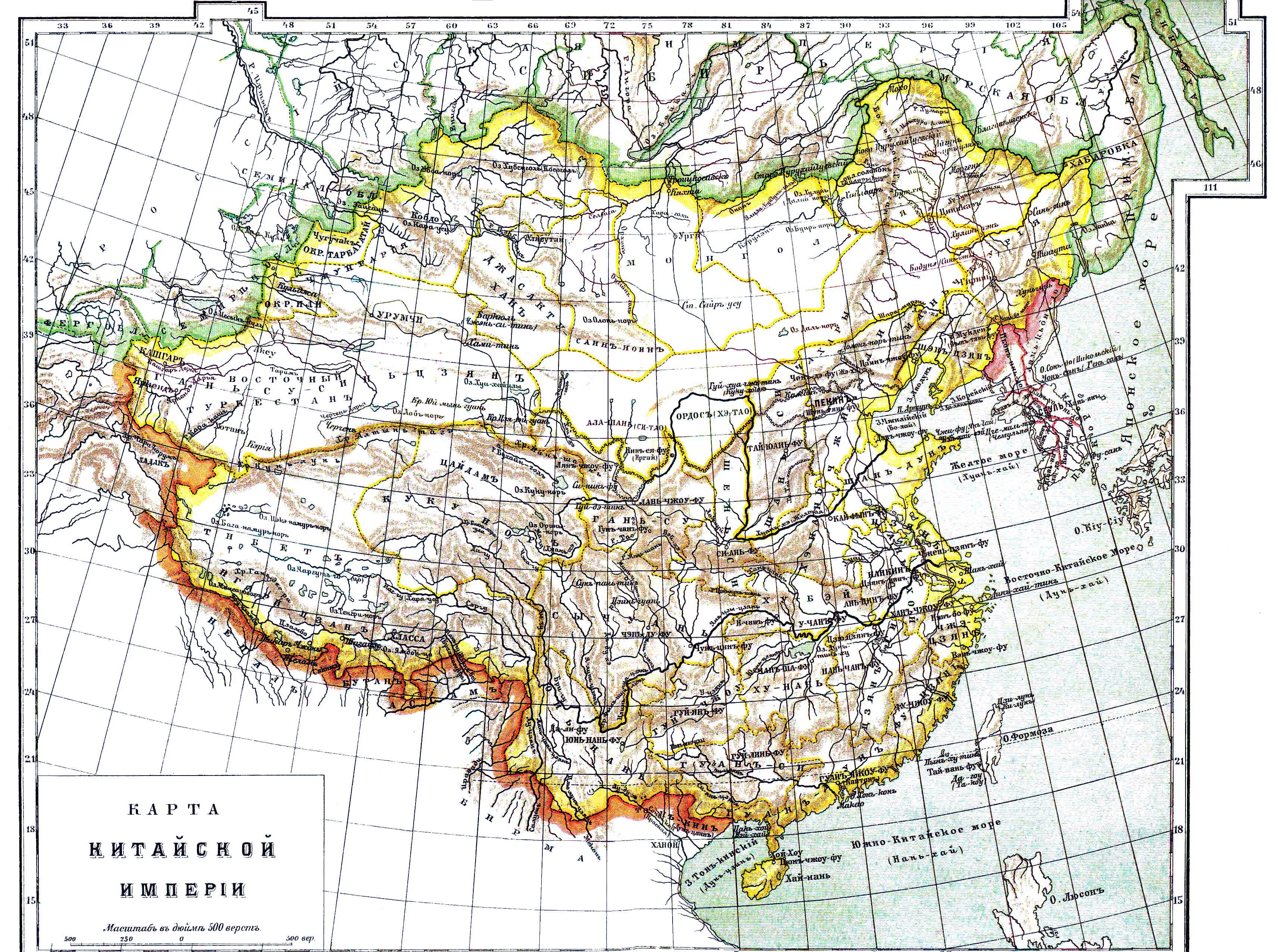 Illustration from Brockhaus and Efron Encyclopedic Dictionary (1890—1907)